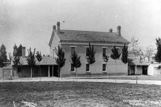 Charles Savage photograph of the Endowment House on Temple Square, Salt Lake City, Utah.